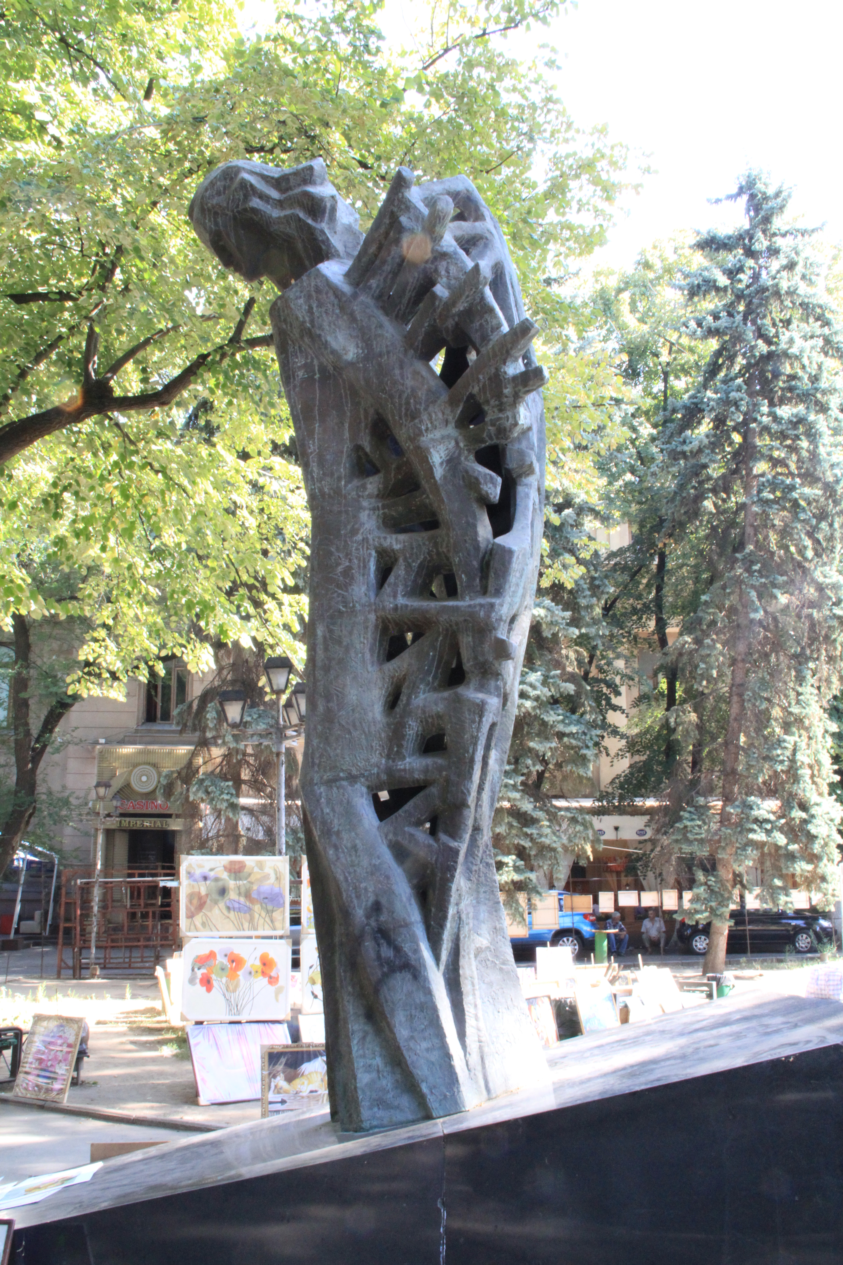 Mihai Eminescu, monument in Chisinau, Rep.of Moldova